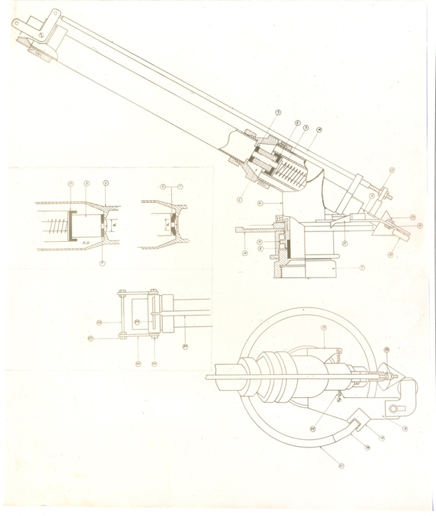 Avtomatik impulslu yağışyağdırıcı apparat. AIDA